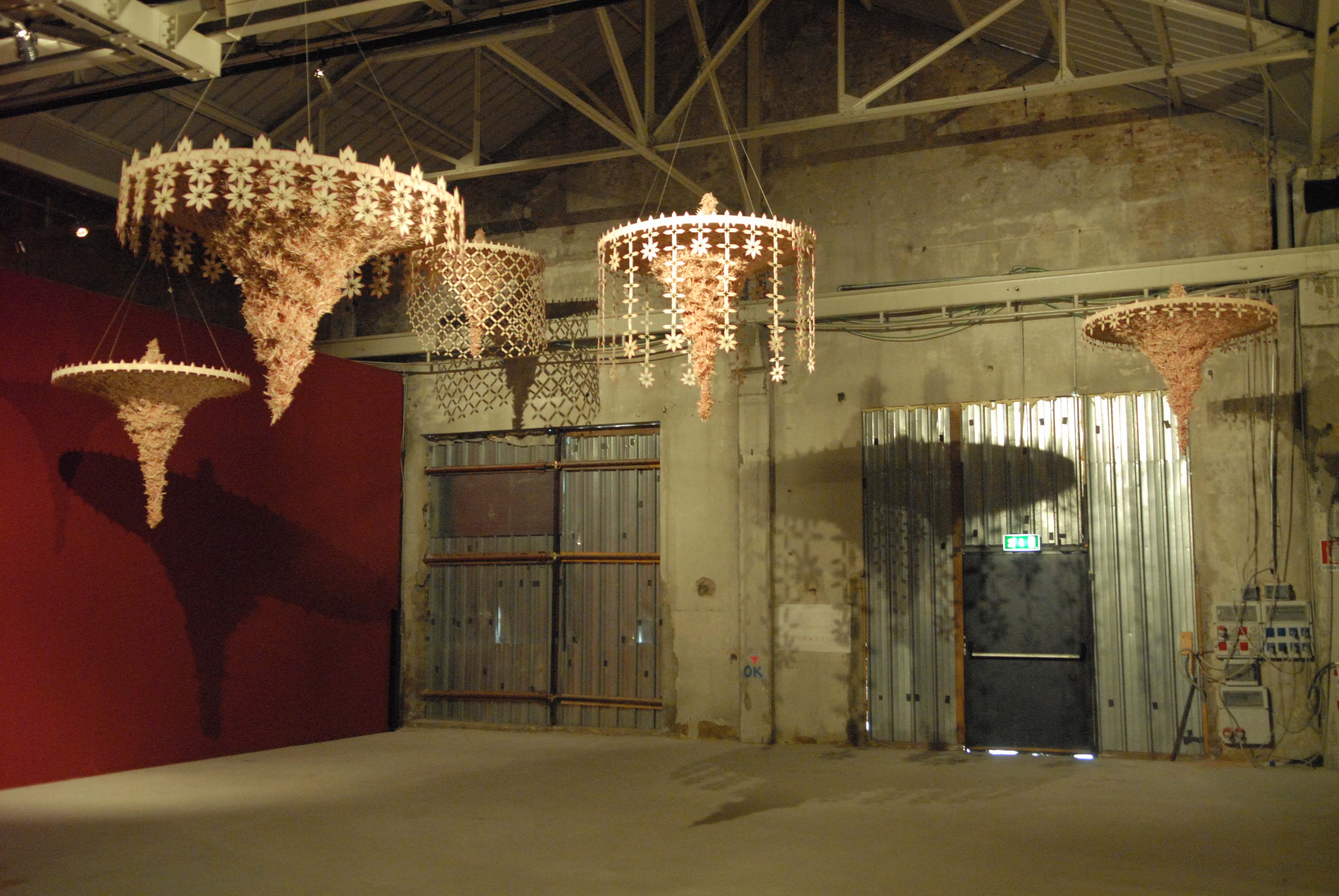 Hema Upadhyay_Loco Foco Motto